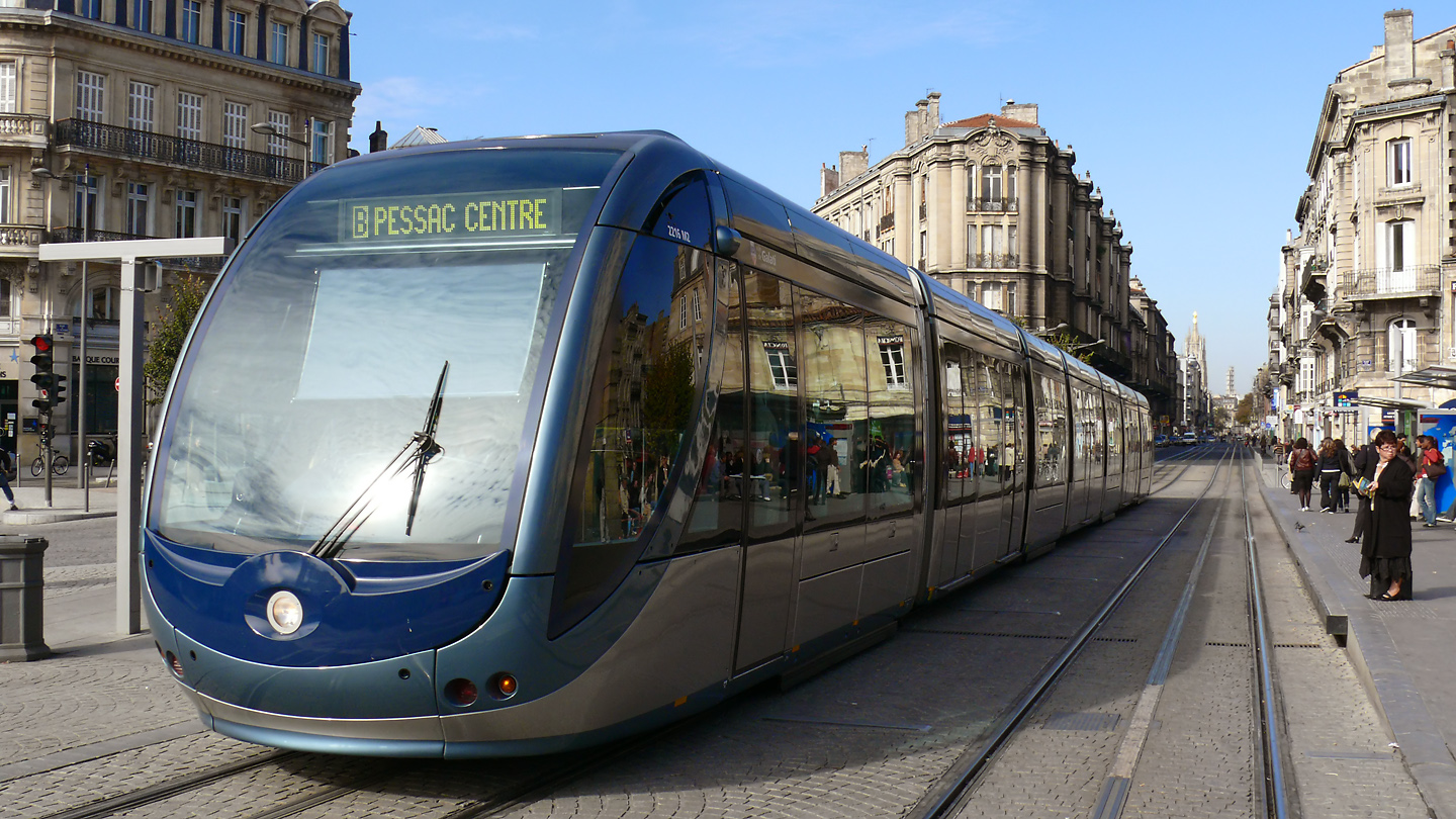 A Citadis 402 of Line B at Victoire